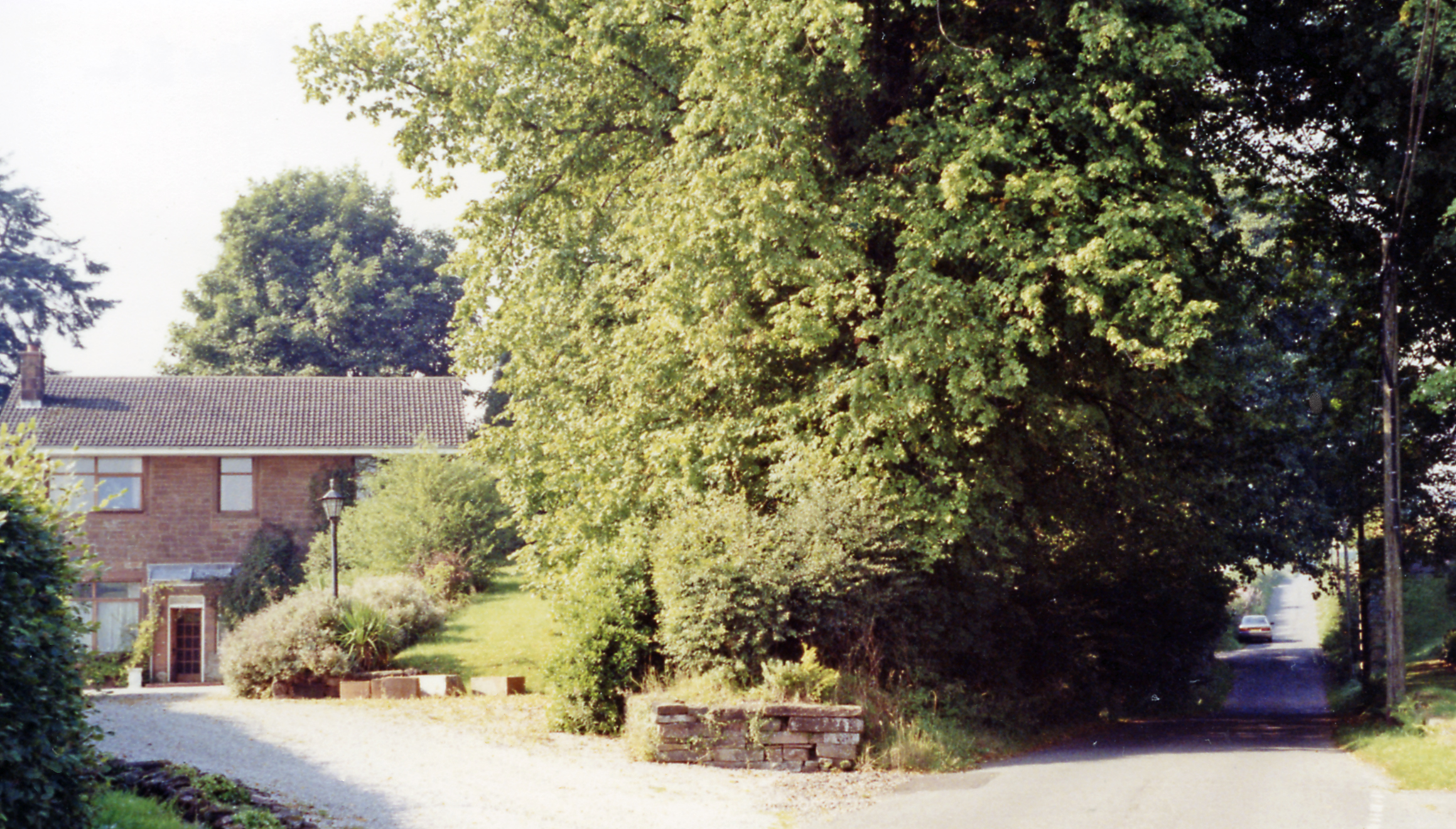 Site of Amisfield station, 1991. View SE, where the ex-Caledonian line used to cross, from Lockerbie (left) to Dumfries (right). The station had been closed from 19/5/52 and the line from 18/4/66, so little wonder it had been built over.